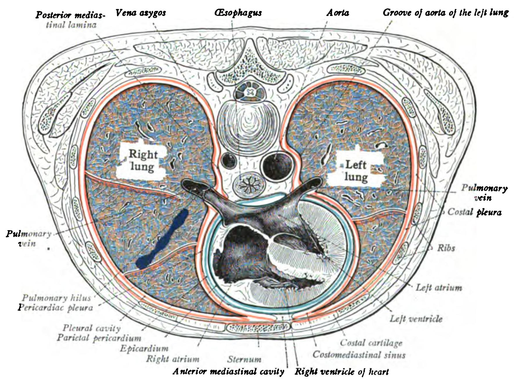 An anatomical illustration from the 1906 edition of Sobotta's Atlas and Text-book of Human Anatomy with English Terminology